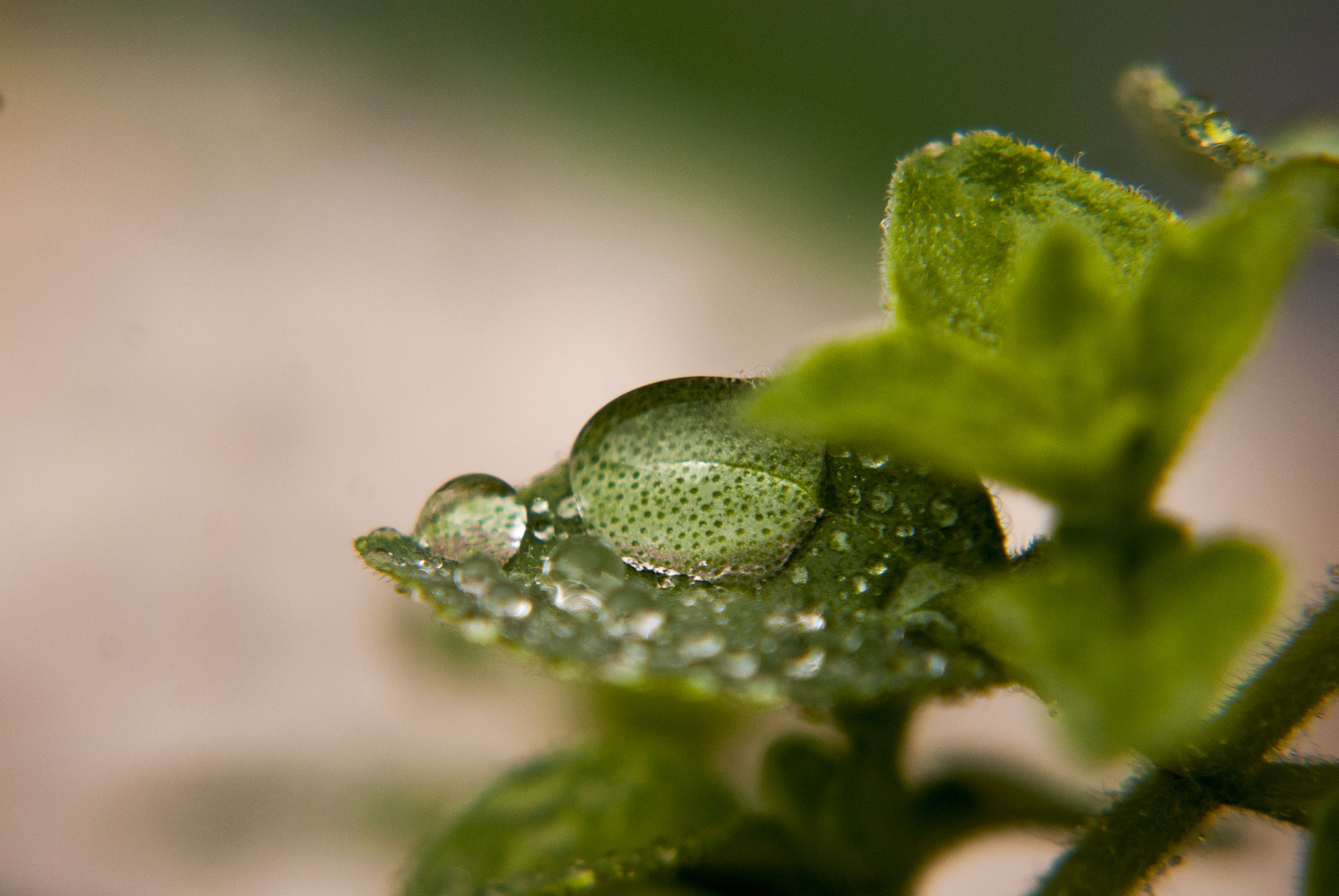 Origanum vulgre leave with water droplet, showing oil glands